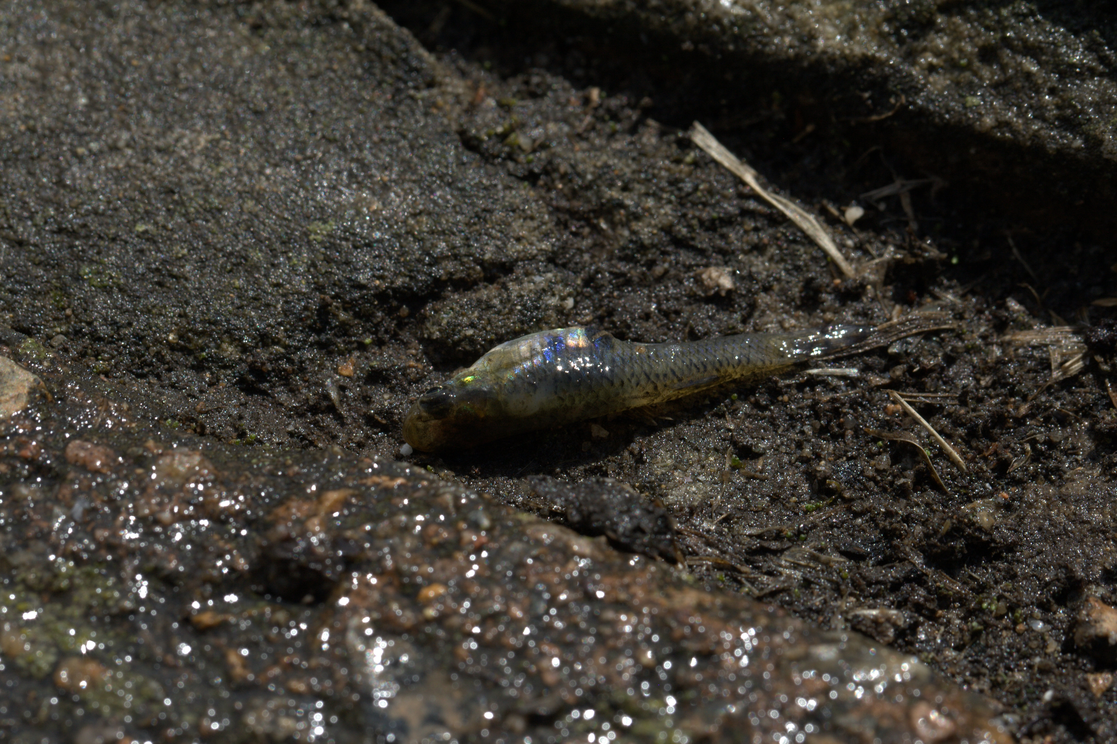 A mosquitofish by Lake Northam, Victoria Park, Sydney, NSW, Australia.